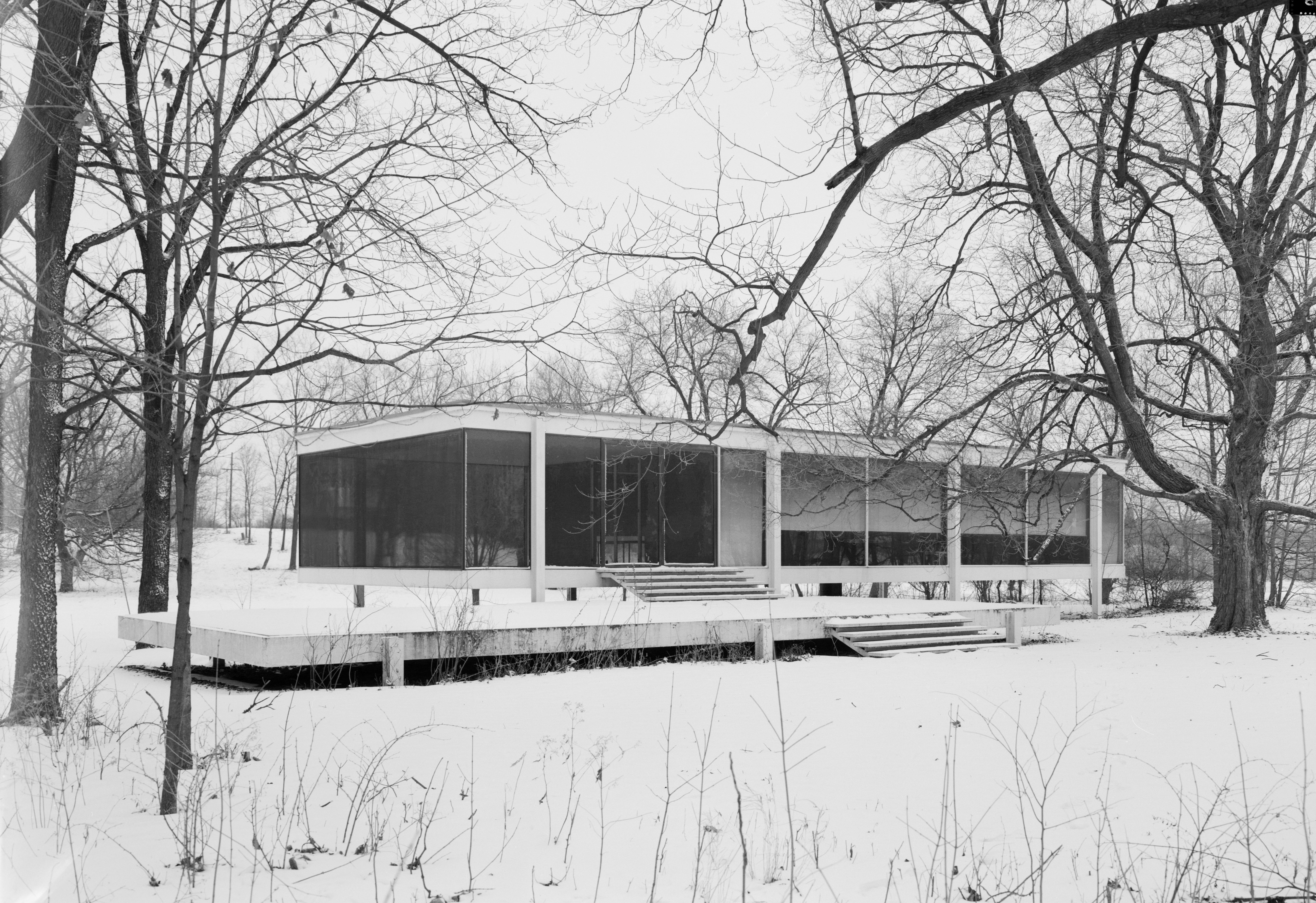 Edith Farnsworth House, Fox River & Milbrook Roads, Plano vicinity, Kendall County, Illinois - general view from the southwest, showing south elevation. Designed by Ludwig Mies van der Rohe